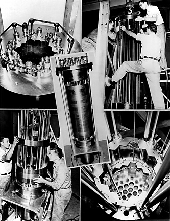 "Assembly of the core of Experimental Breeder Reactor I at Argonne's Idaho site, 1951."